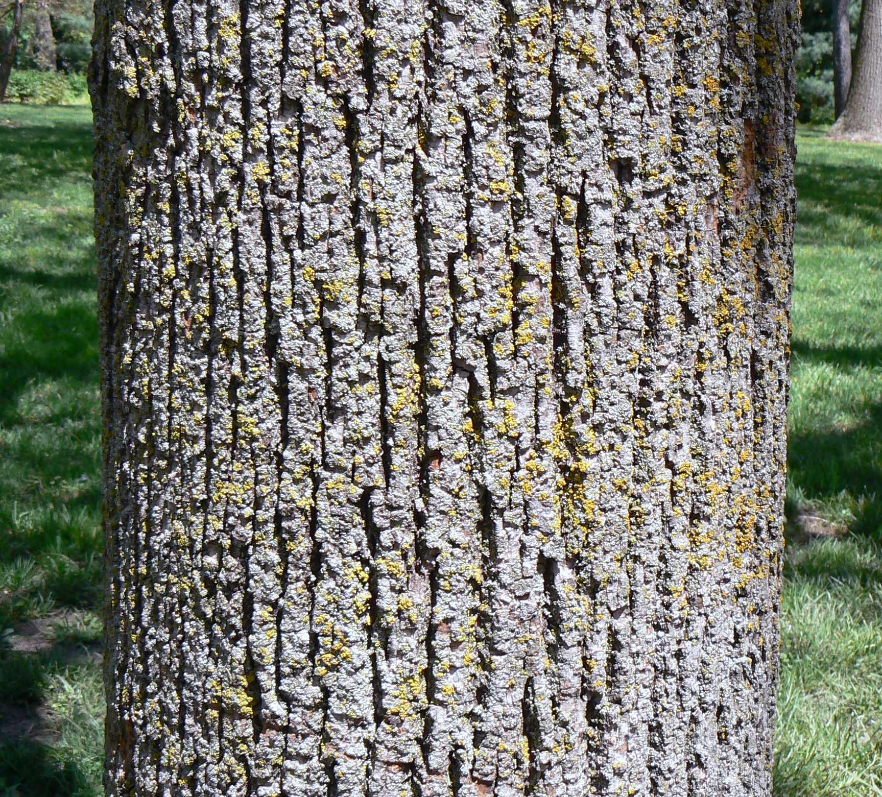 American Linden bark detail